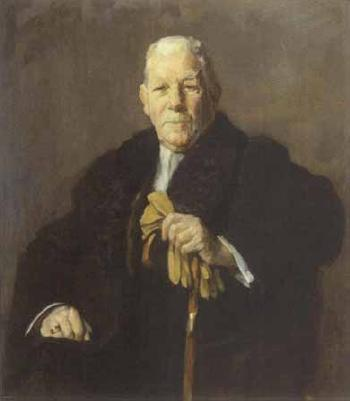 Christian Schmiegelow, Danish businessman and shipowner